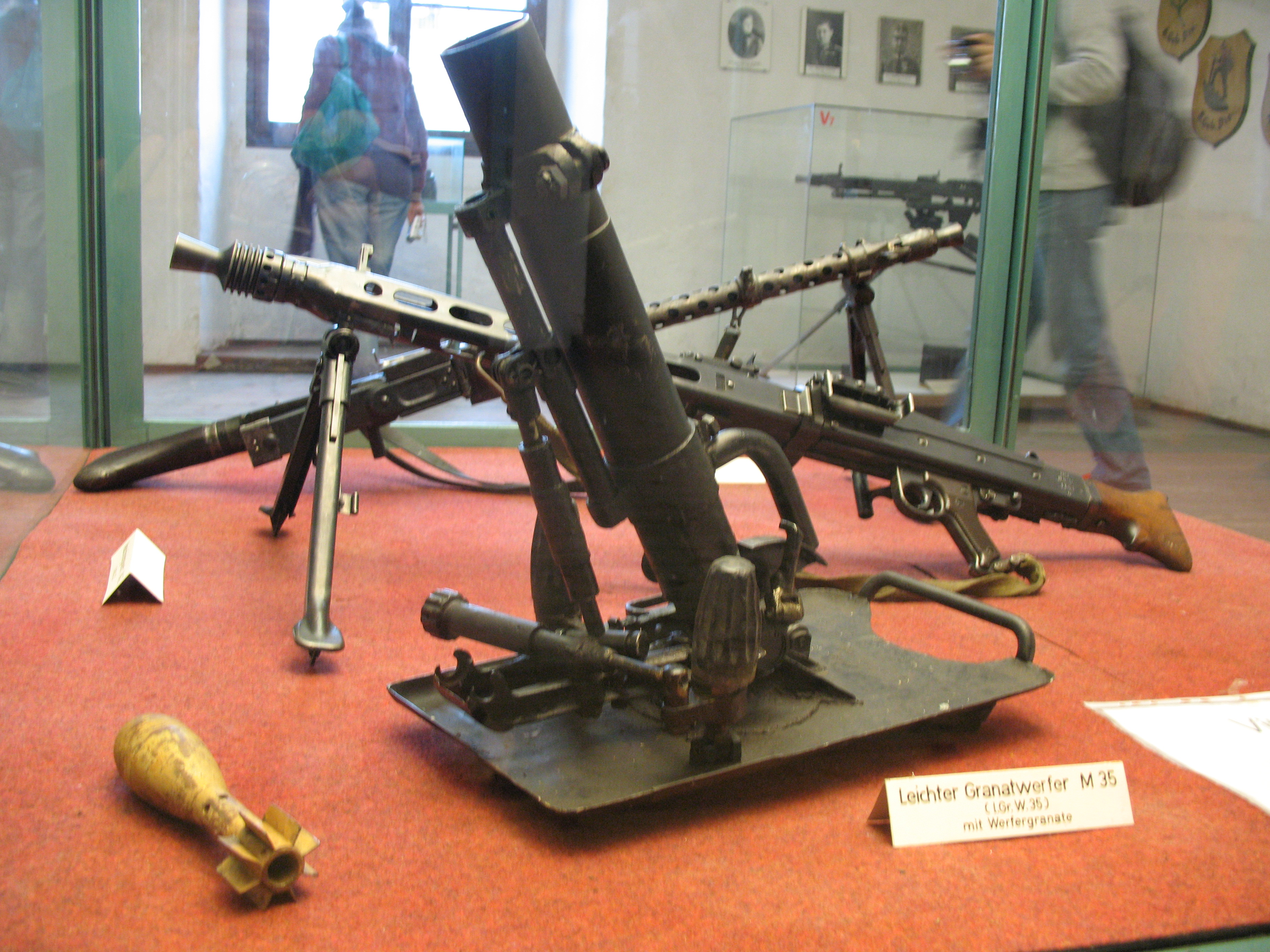 Grenade Launcher 36 in the High Fortress, Salzburg, Austria